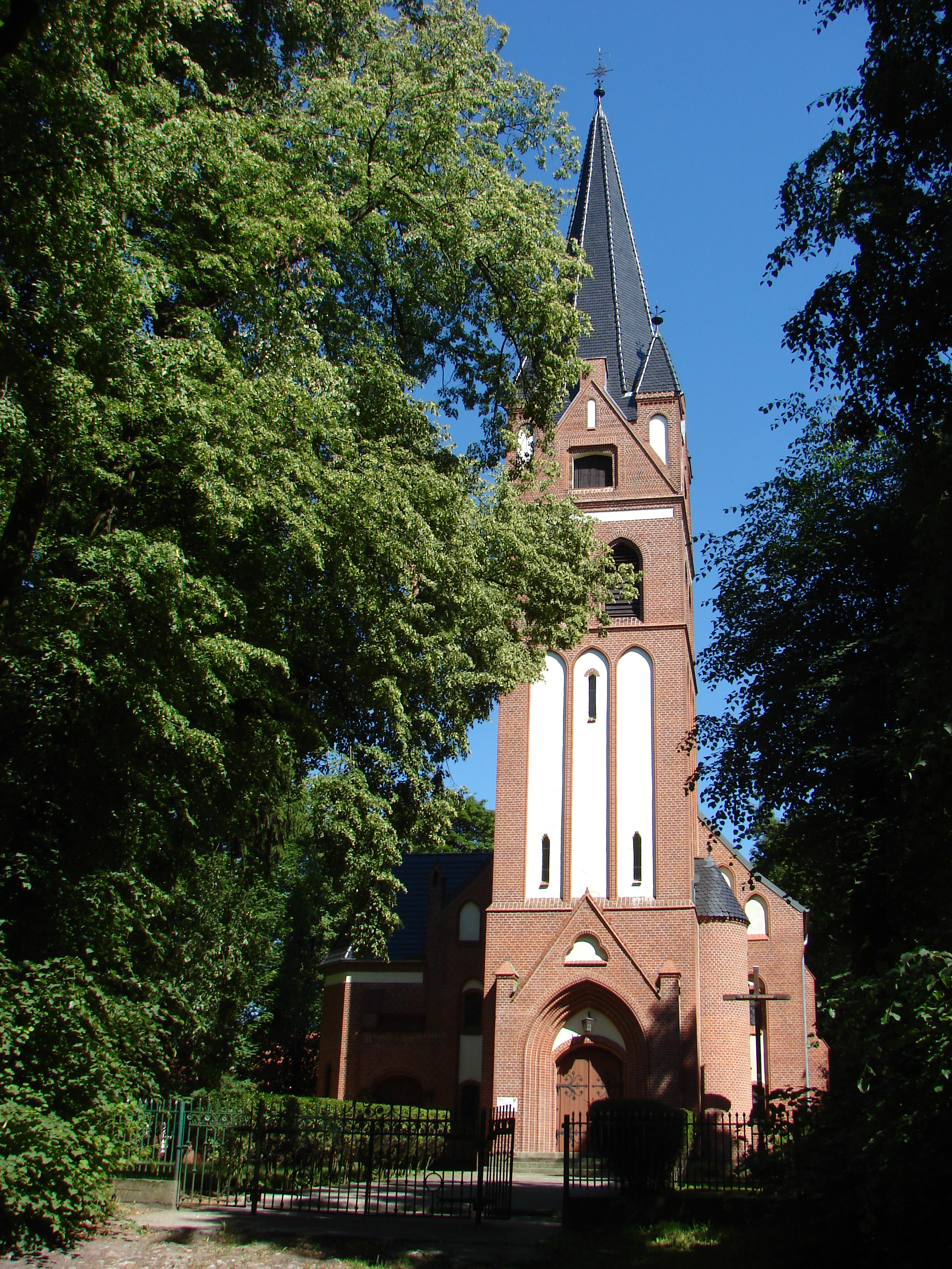 Konojady, Gmina Jabłonowo Pomorskie, Parish church, built 1896-1898.